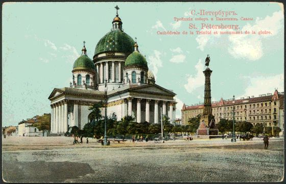 St. Trinity Cathedral of Izmailovsky Regiment, built between 1827-1835 to a plan by architect Vasily Stasov. In this church, the wedding of the famous Russian writer Feodor Dostoyevsky took place. The dome of the church was destroyed by fire on 25th August 2006.